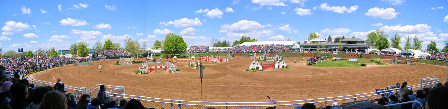 Photo by Ronald Yochum ronjamin . Panorama of the Show Jumping Ring at the Rolex Kentucky Three Day Event